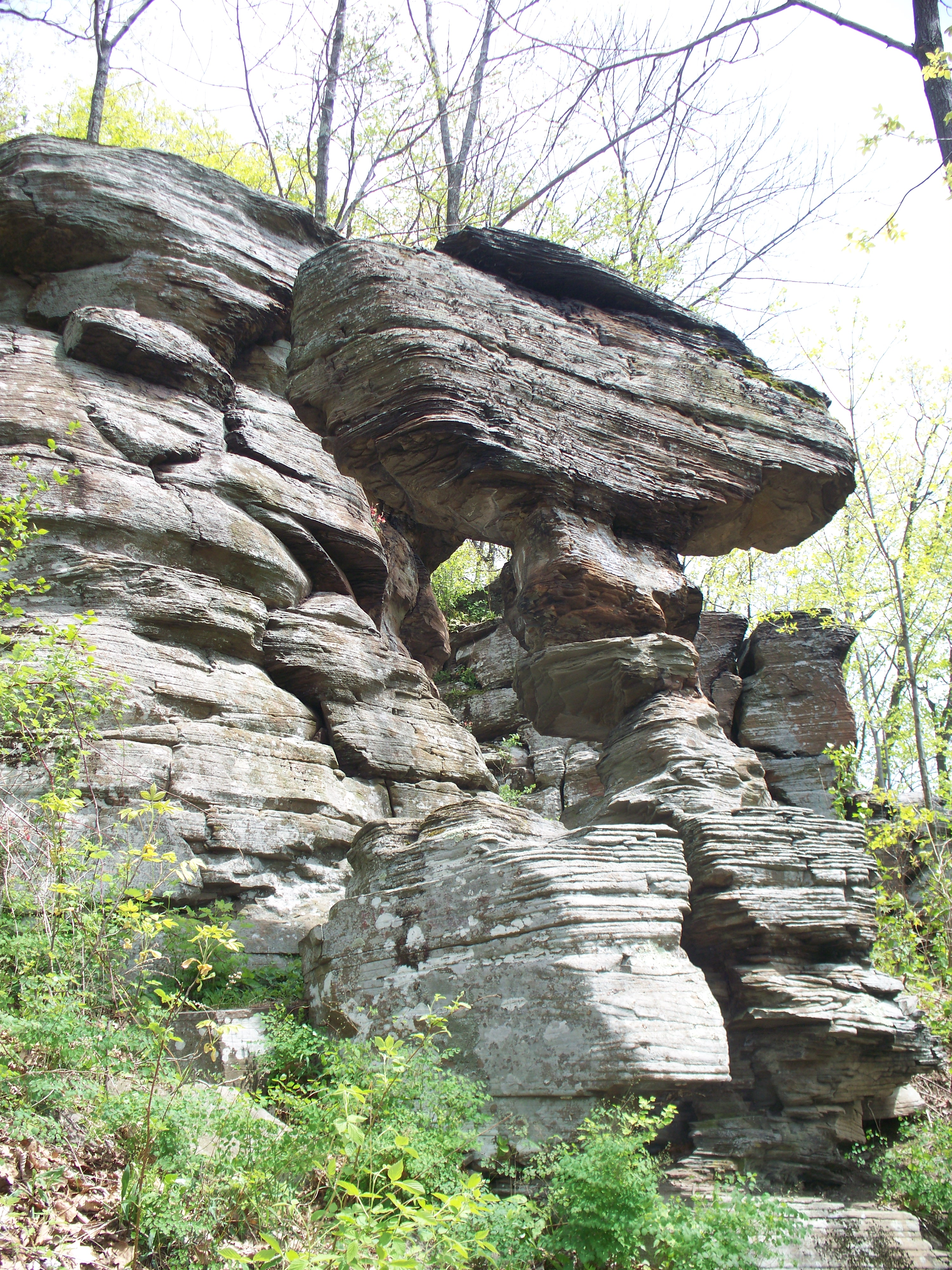 At ground level. 04-1-2010